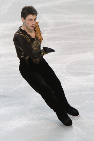 Brian Joubert at the 2010 European Figure Skating Championships.